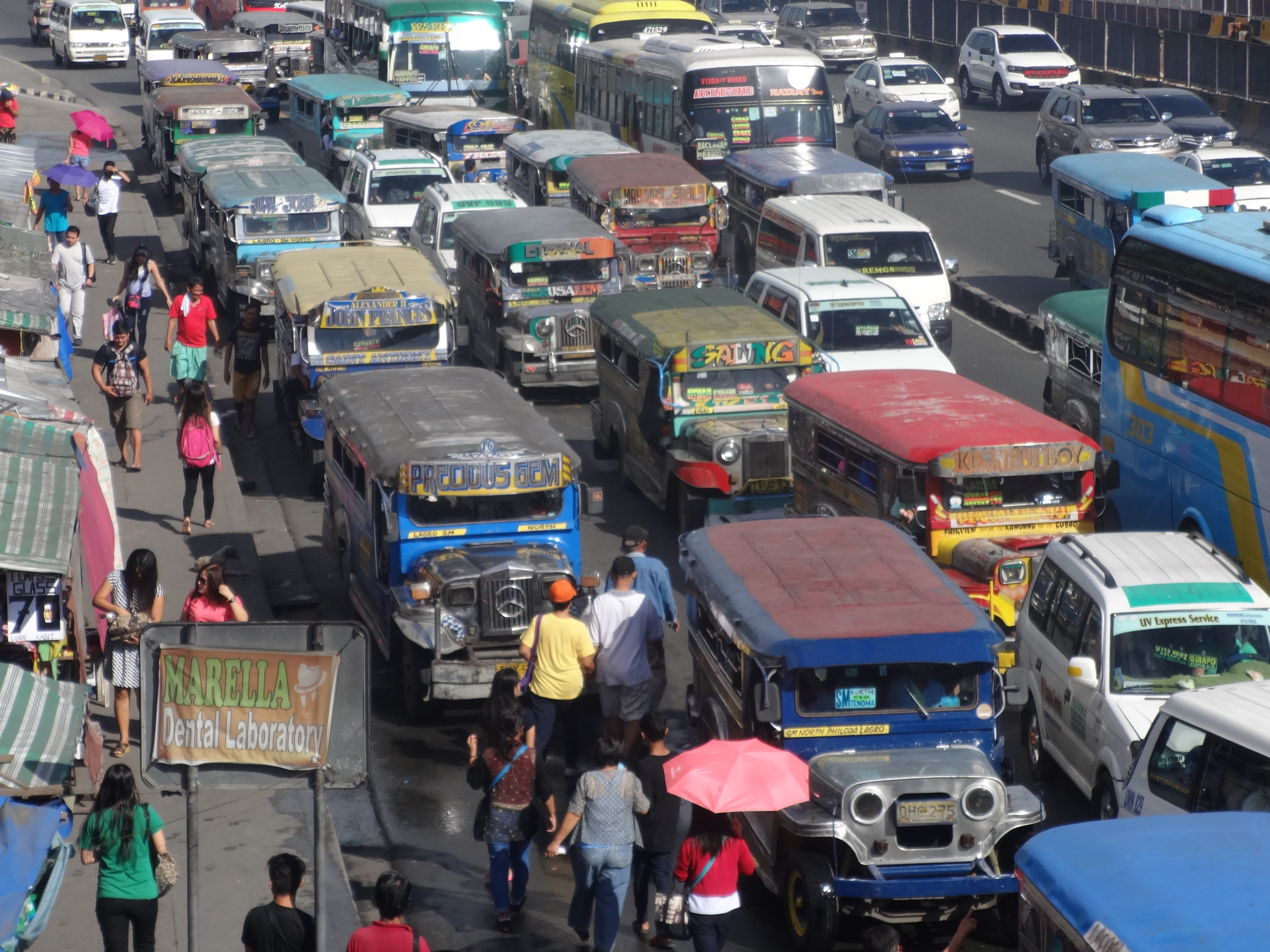 Traffic jam of jeepneys and buses along Commonwealth Avenue in Quezon City